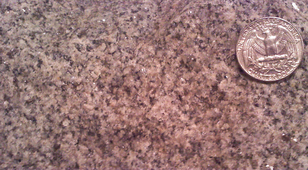 Guilford Quartz Monzonite of Ordovician or Silurian age. Photographed on a boulder at the old Guilford Quarry on Guilford Road, Columbia, Maryland.